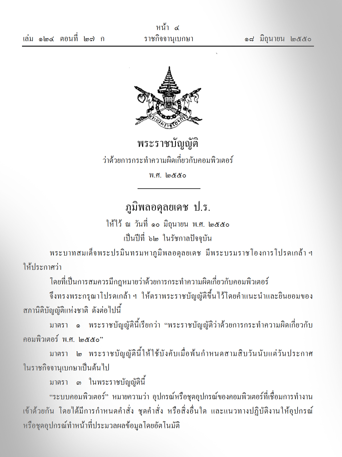 The first page of the Act on Computer-Related Offences, BE 2550 (2007) of Thailand as published in the Government Gazette: volume 124/part 27 A/page 4/June 18, 2007.